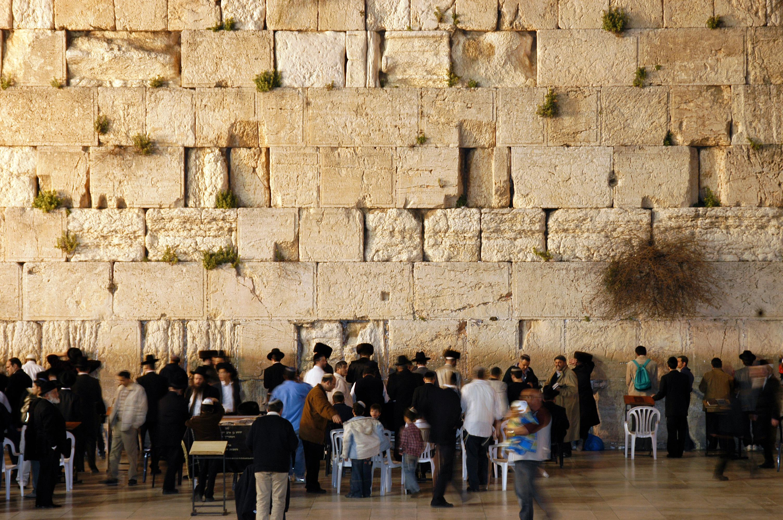 Western wall in Jerusalem at night